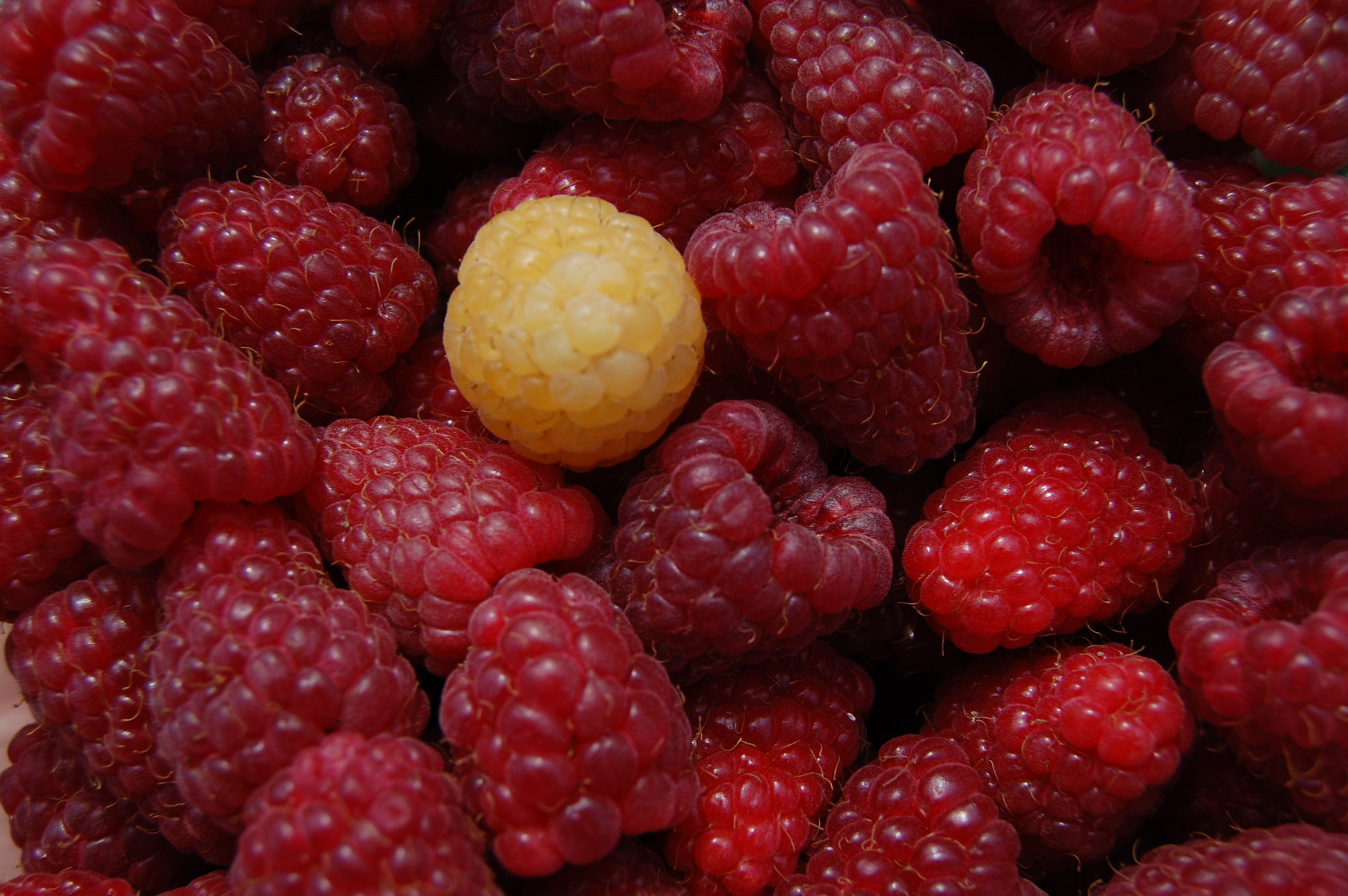 taken by Lyudmilla Mishonova